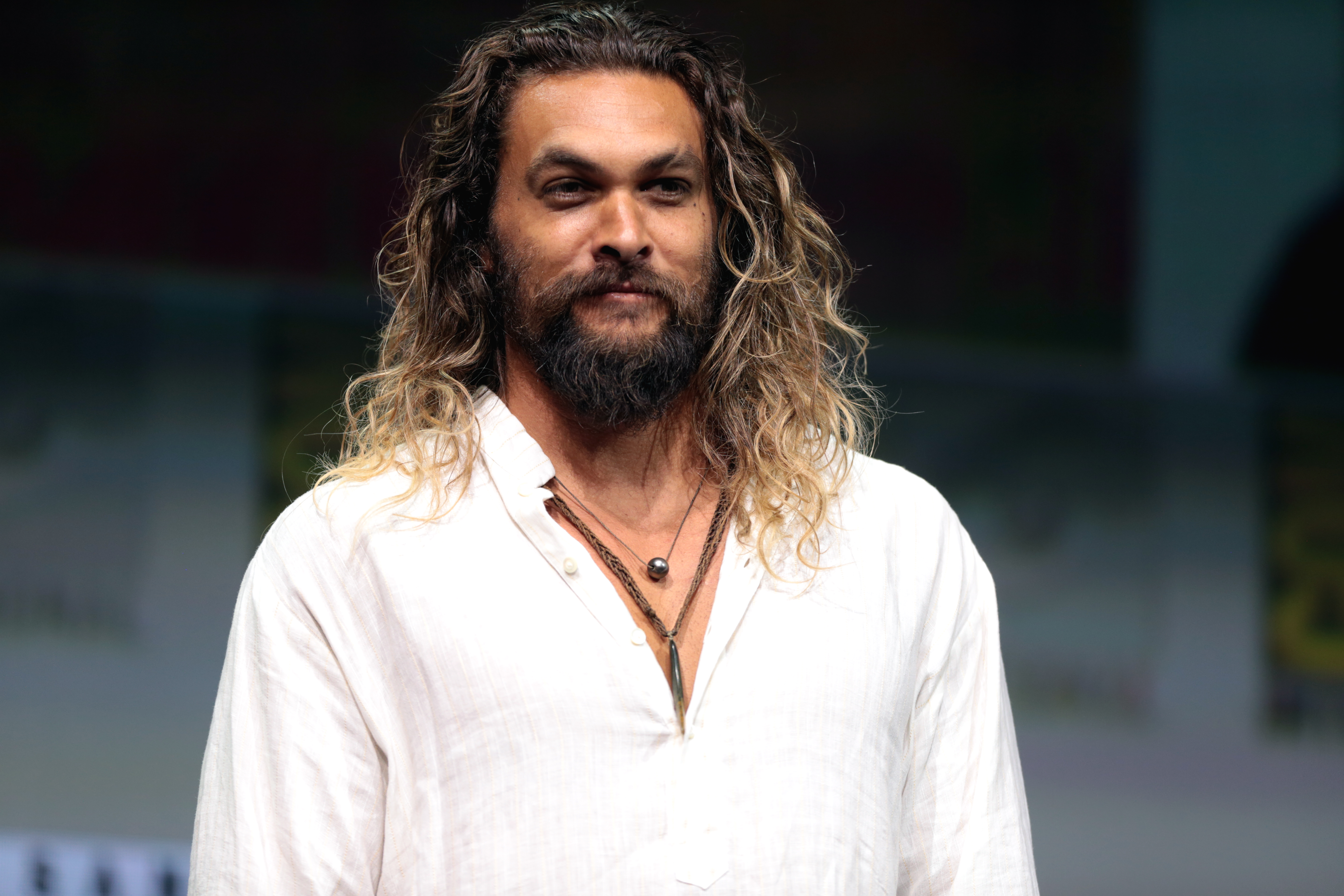 Jason Momoa speaking at the 2017 San Diego Comic Con International, for "Aquaman", at the San Diego Convention Center in San Diego, California.